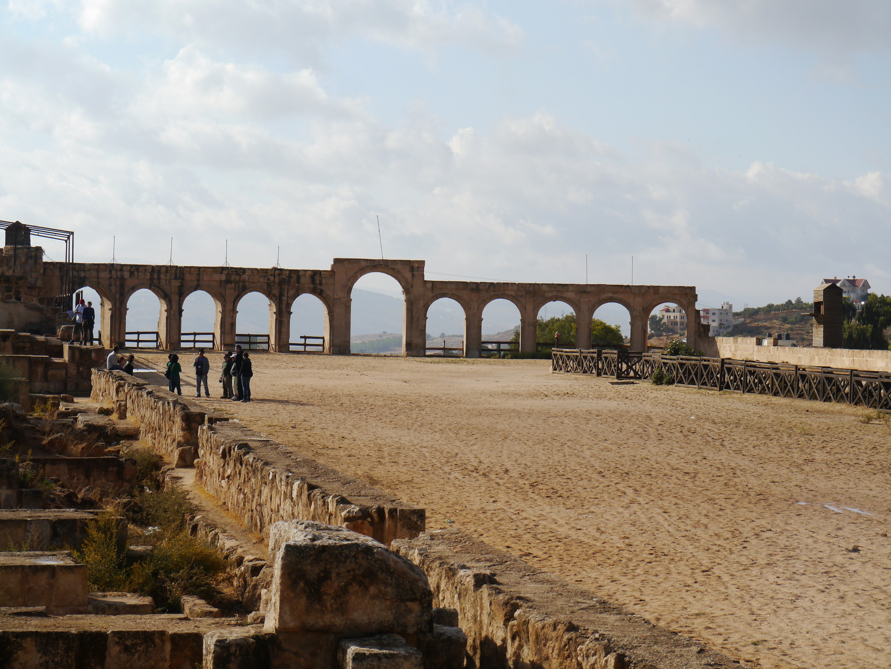 Hippodrome, Gerasa/Jerash, Northwestern Jordan